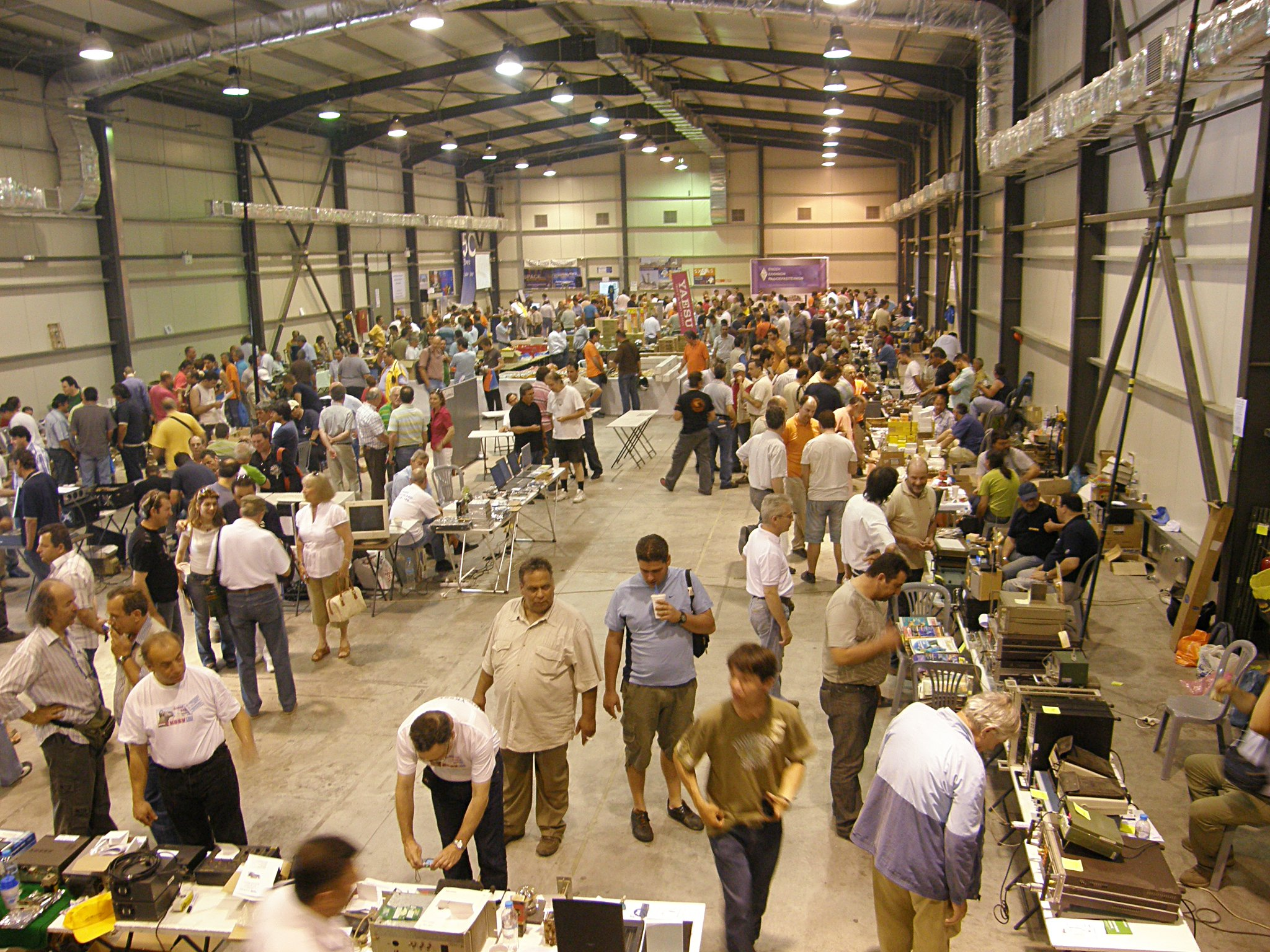 Panoramic view of the central hall of the 2008 hamfest of the Radio Amateur Association of Greece in Athens, Greece.